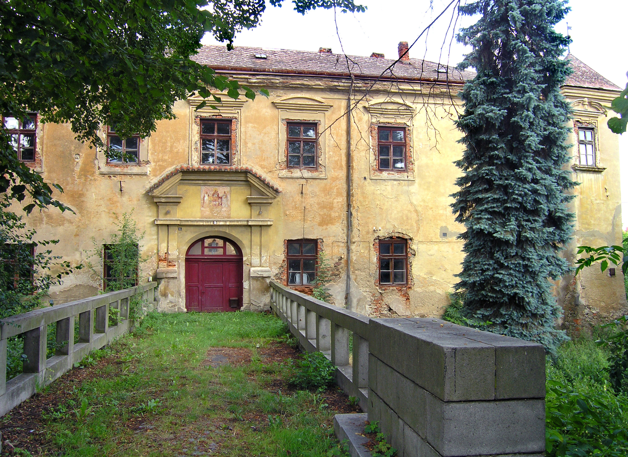 Červené Janovice Castle in Červené Janovice, Czech Republic